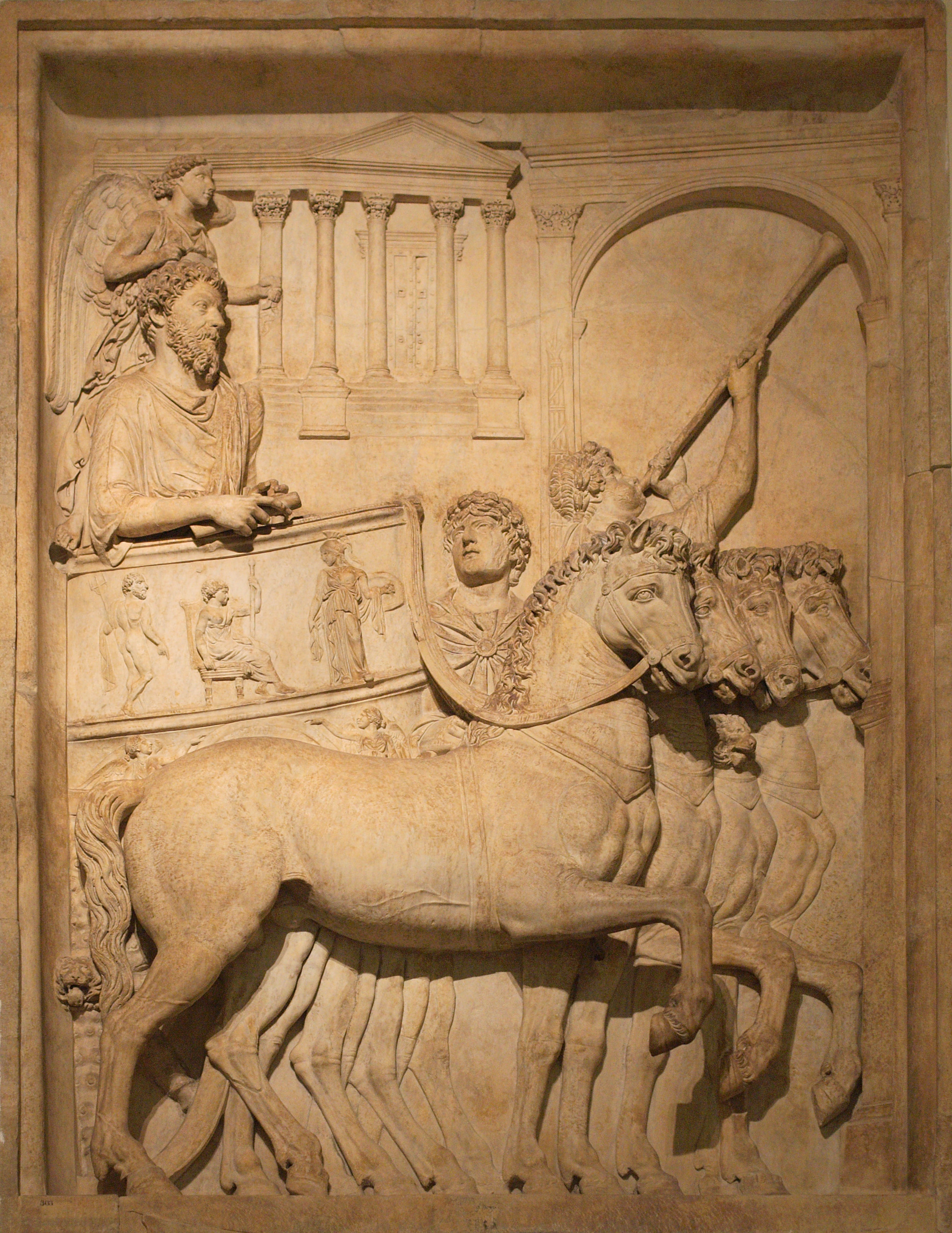 Emperor Marcus Aurelius (161-180 AD) at his triumph after his success against Germanic tribes. Bas-relief from the Arch of Marcus Aurelius, Rome, now in the Capitoline Museum in Rome.